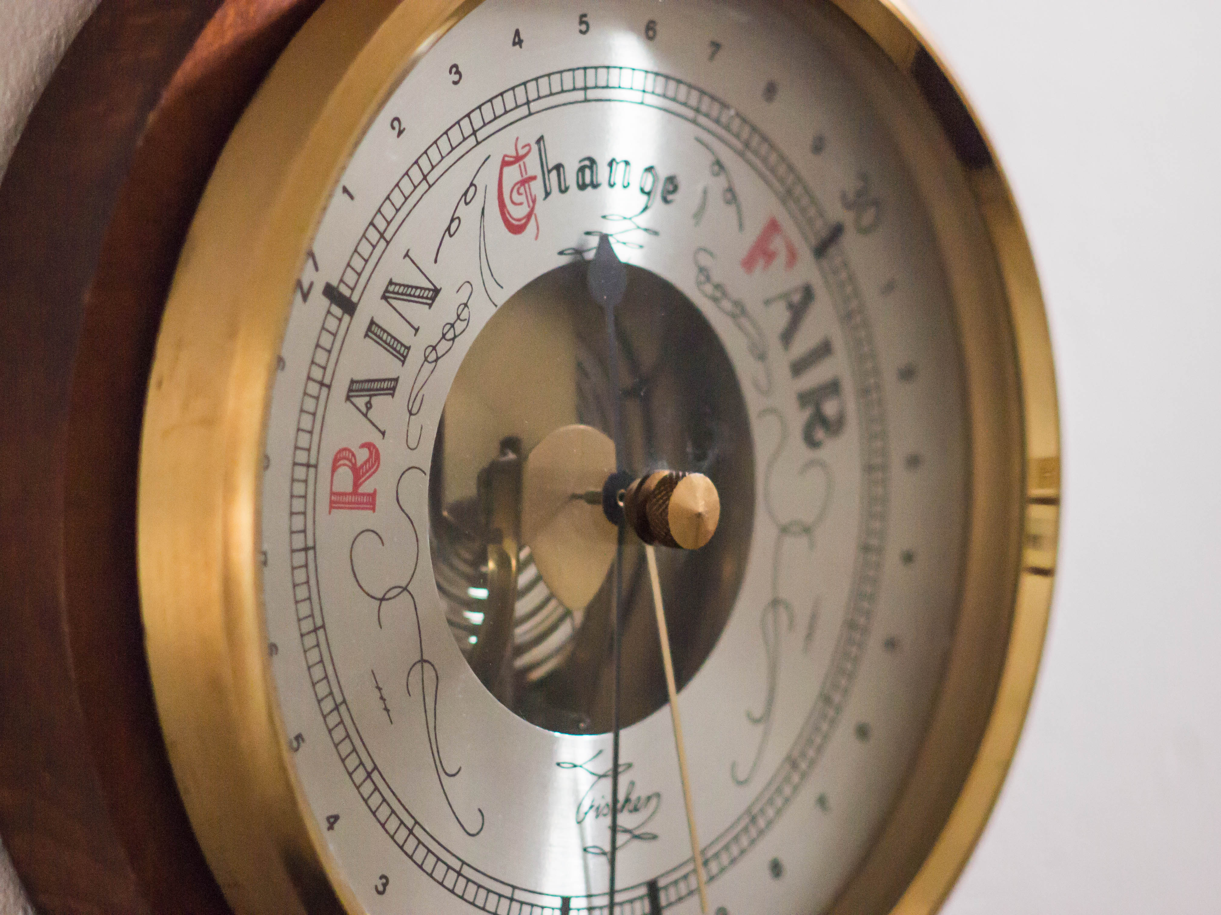 Taken with a Pentax Super Takumar 135mm f/3.5, hand-held in indoor available light.